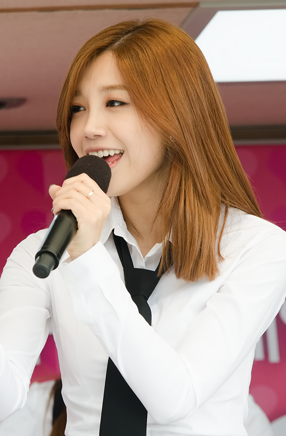 Jung Eunji on 11 April 2014